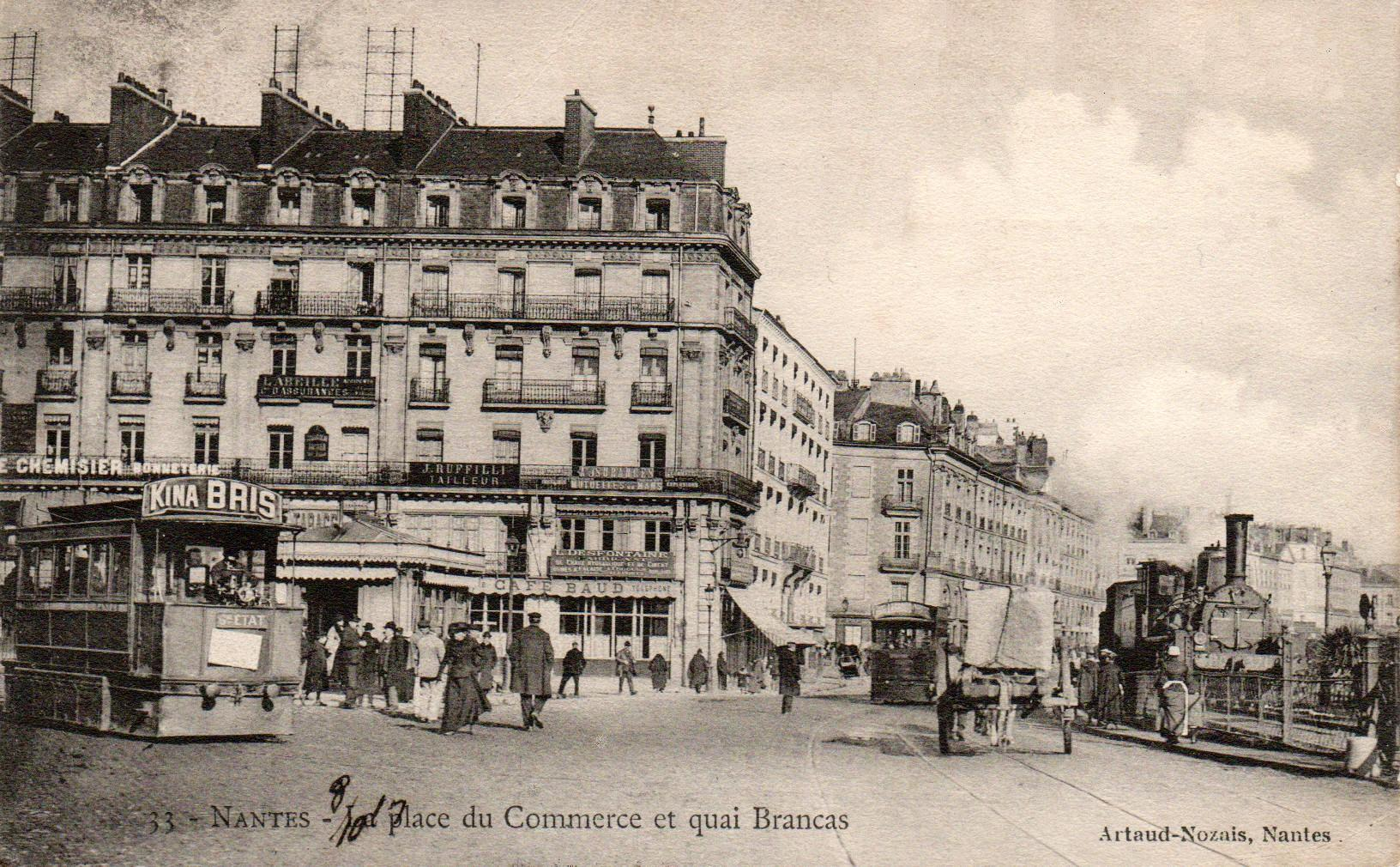 Mékarski compress air tram in Nantes (France) in 1907 - vintage postcard - personal collection.